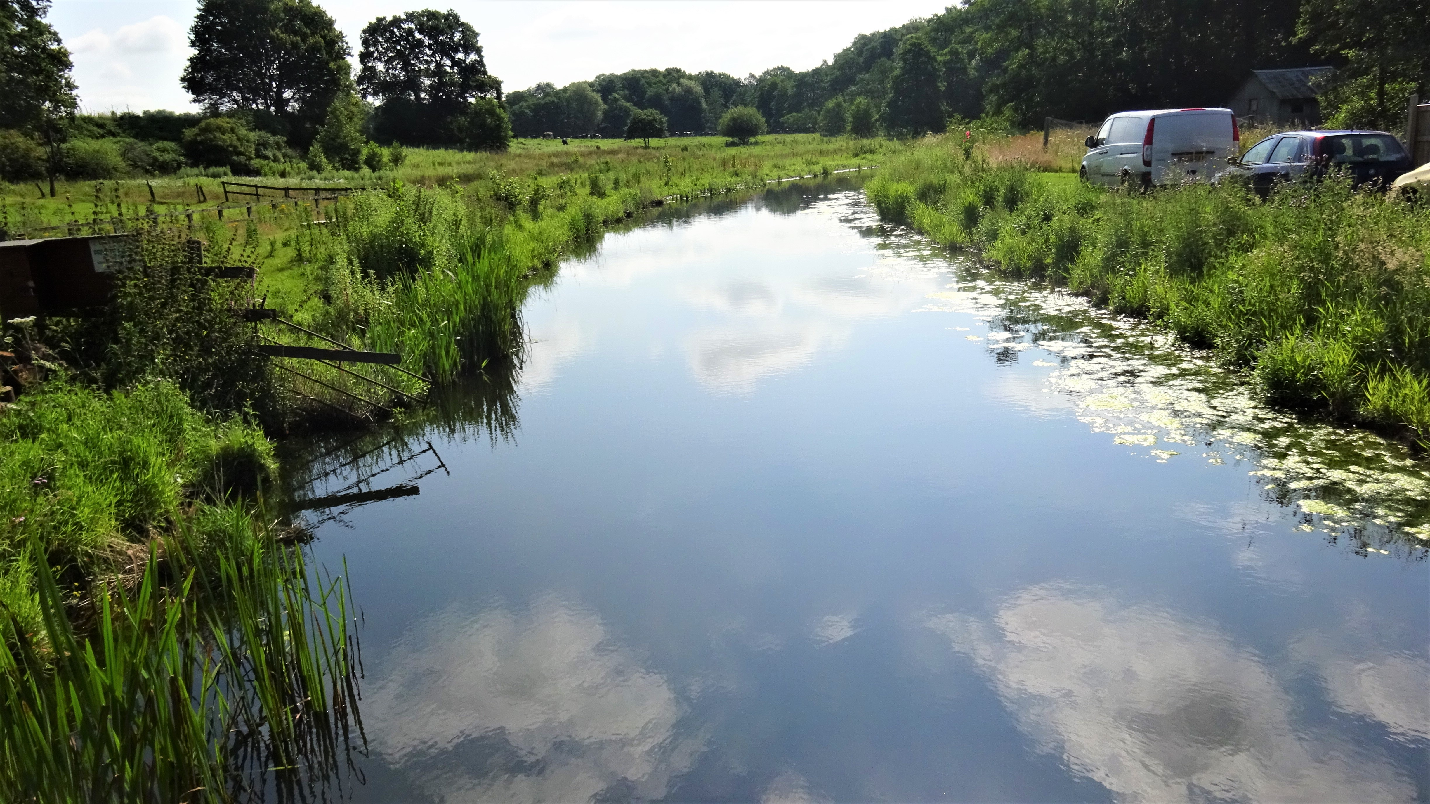 The Peover Eye and mill pond, Bate Mill, Peover Superior, Cheshire, England. The mill pond powered the former Bate Mill.